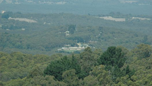 Photo of Heathfield taken from the Mount Lofty fire tower by Mel Mazzone